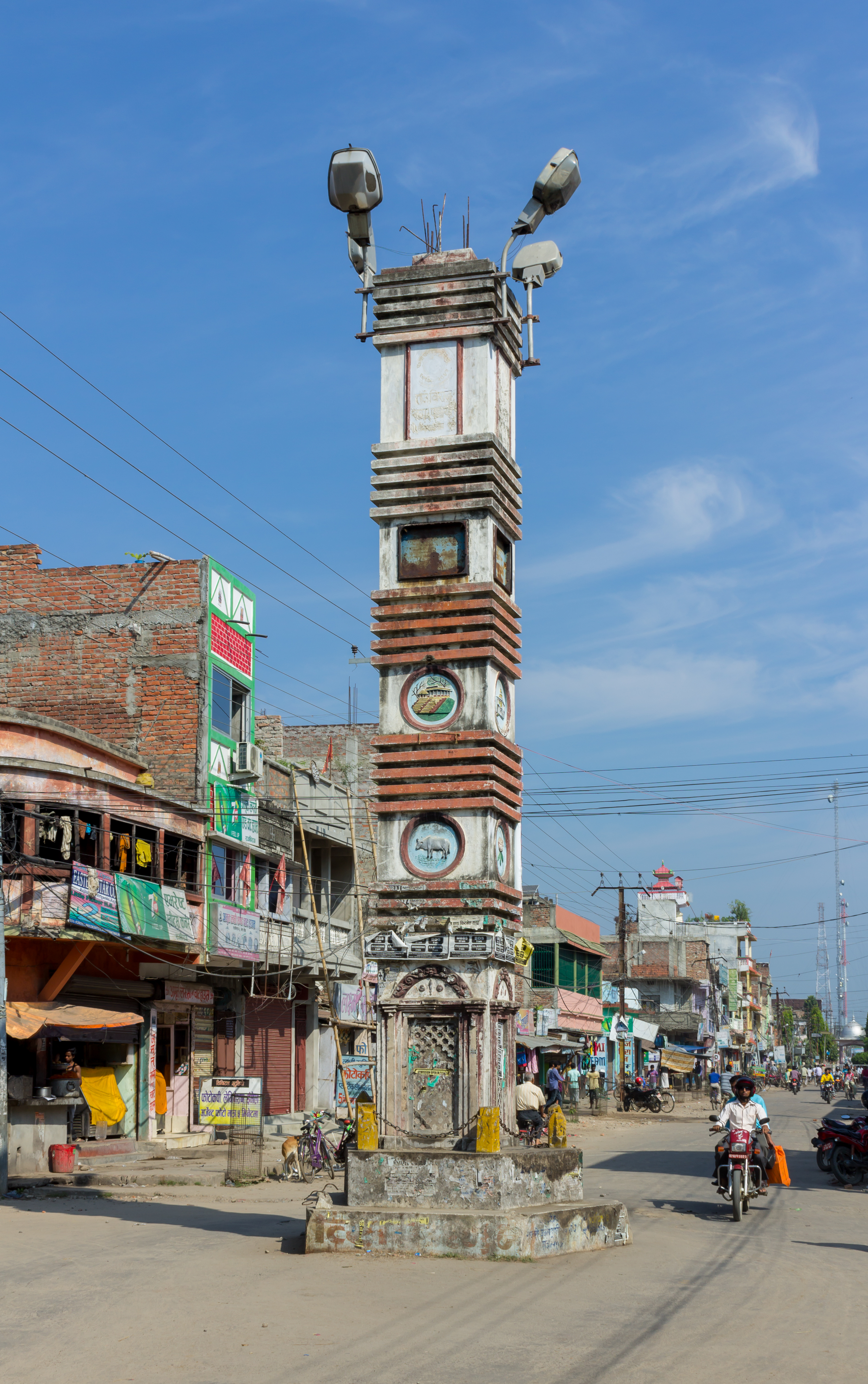 Neta chowk is Situated in the center part of Rajbiraj Cirty.